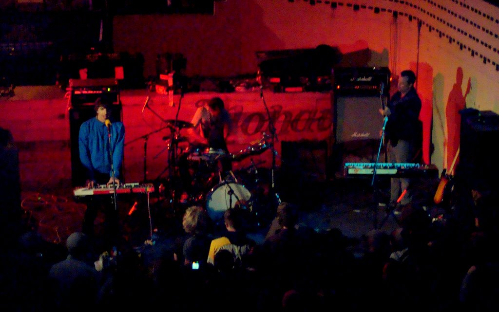 Trans Am performs at The Mohawk in Austin, Texas on November 15th, 2007.